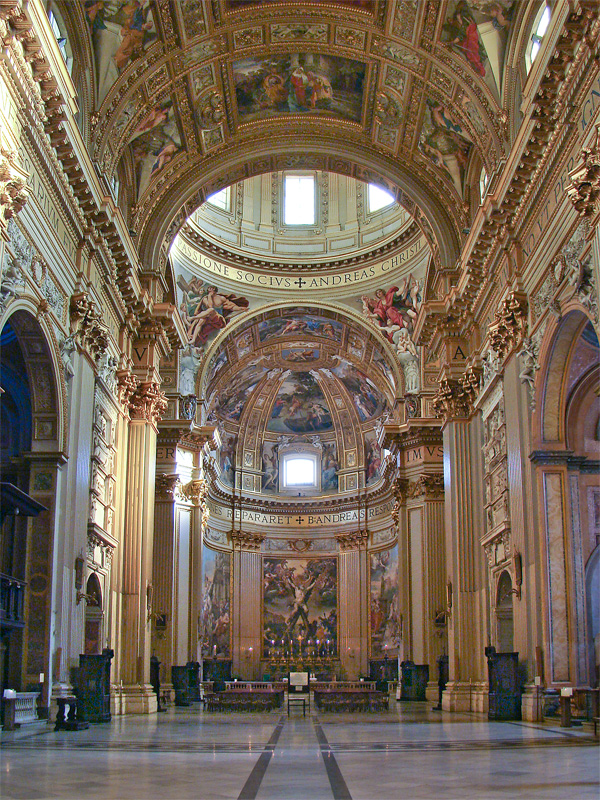 Basilica of Sant'Andrea della Valle, Rome, Lazio, Italy.